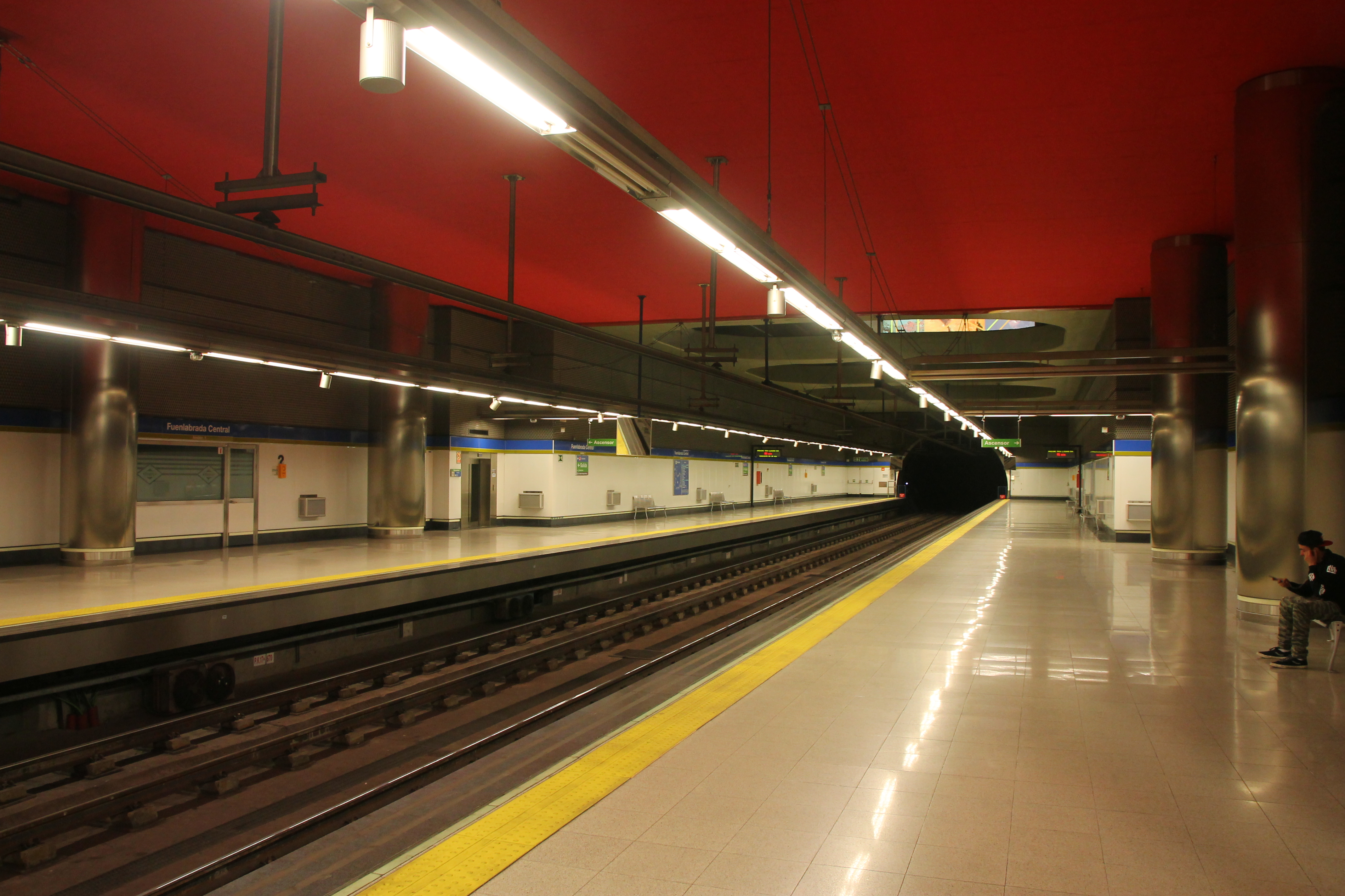 Fuenlabrada Central metro station, line 12, Madrid